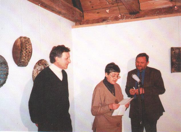 Photo from the opening of the Zvonko Butković`s one man show in the Galery Sv. Ivan Zelina, 21st December, 1996.